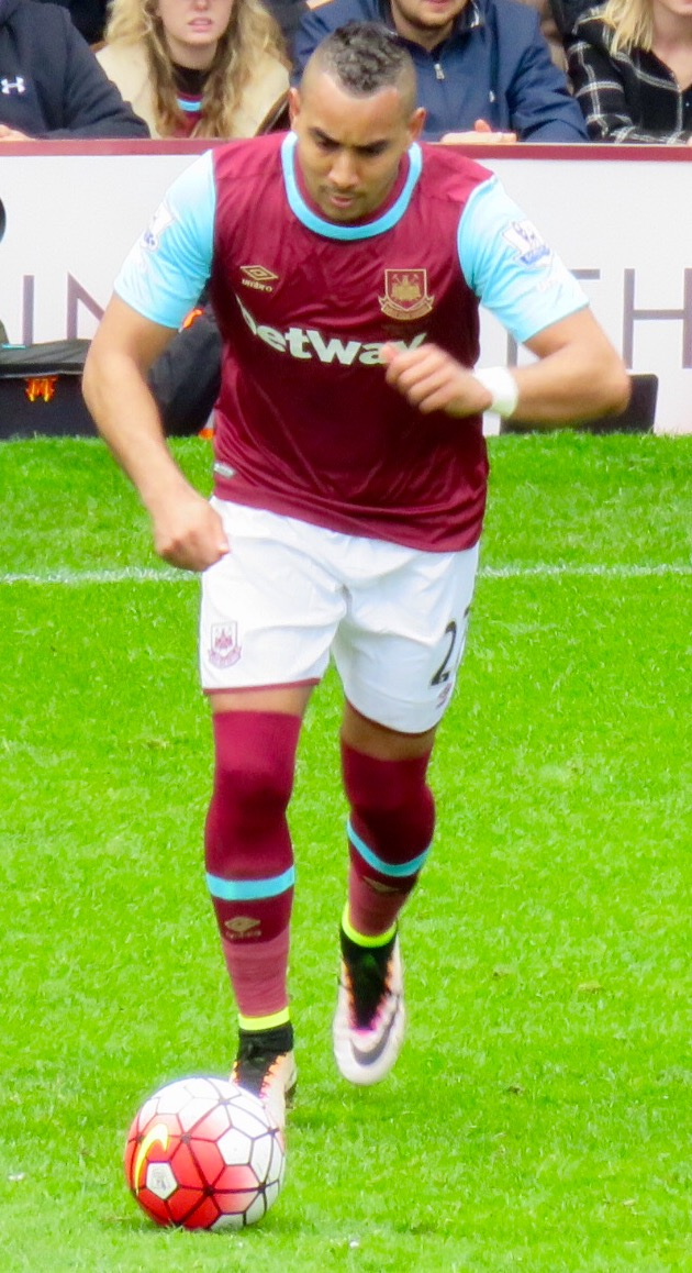 West Ham United player Dimitri Payet takes a free-kick against Arsenal in the Premier League at the Boleyn Ground.